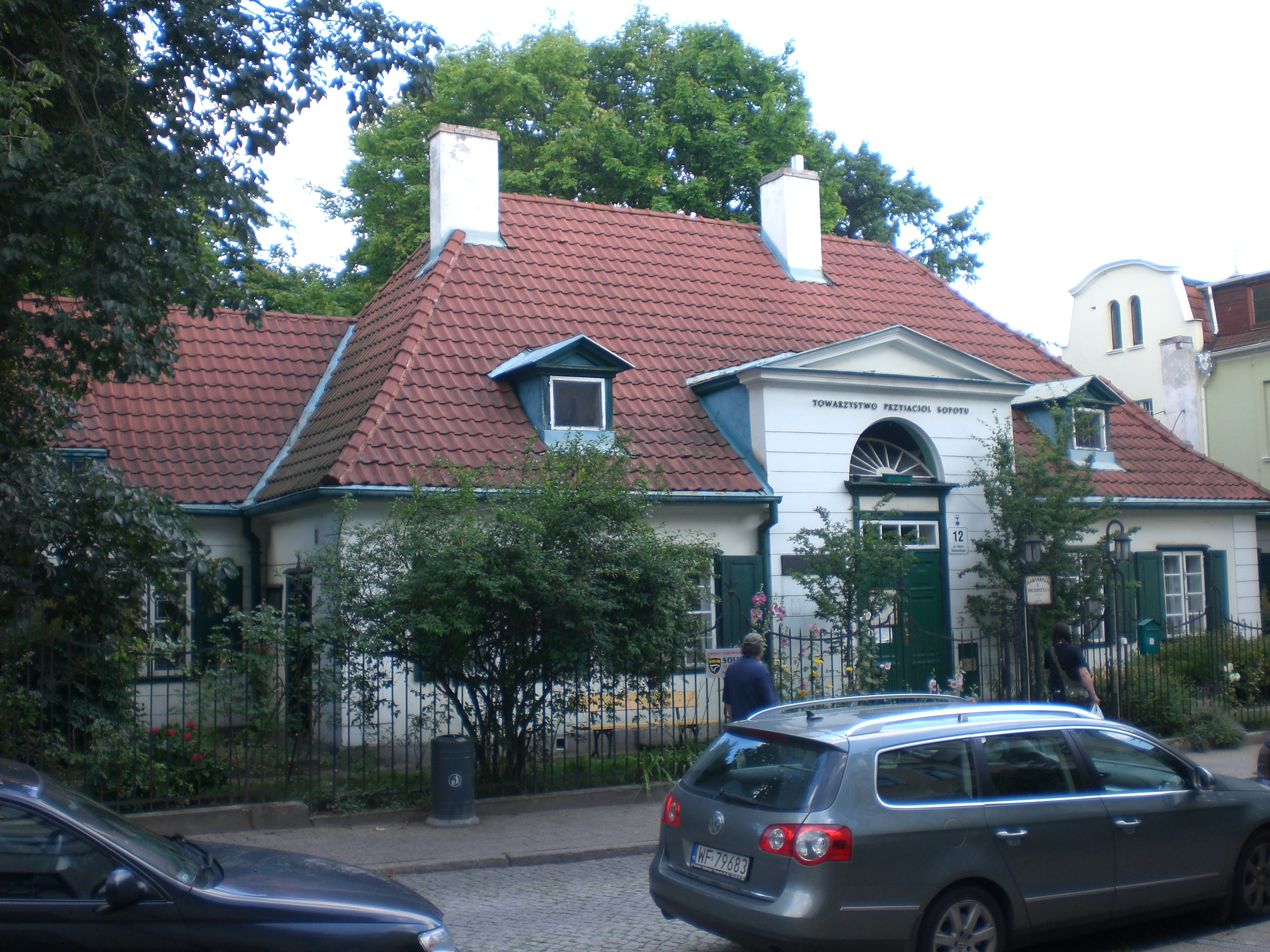 Manor of Sierakowski family in Sopot